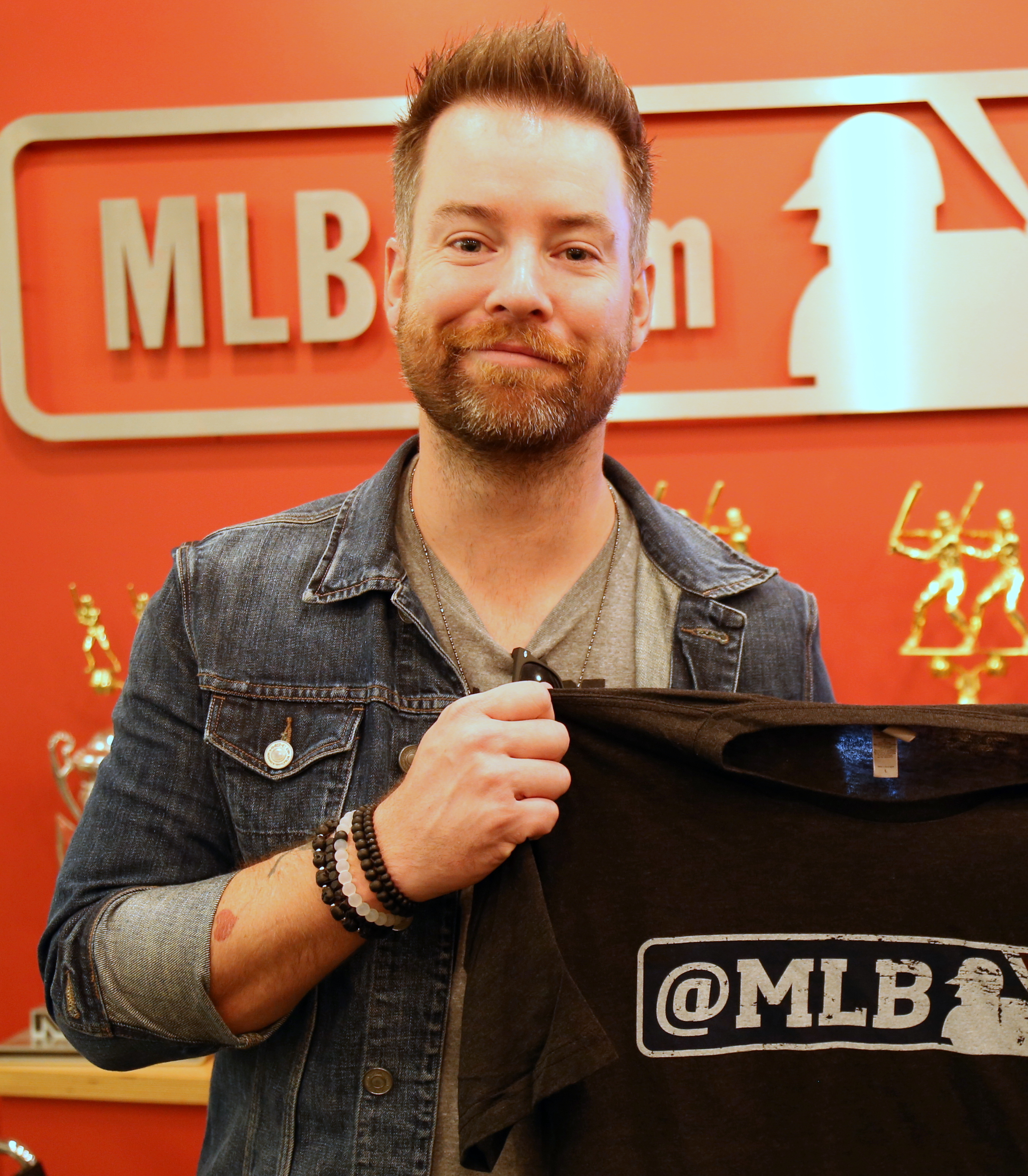 David Cook visiting in New York in September 2015